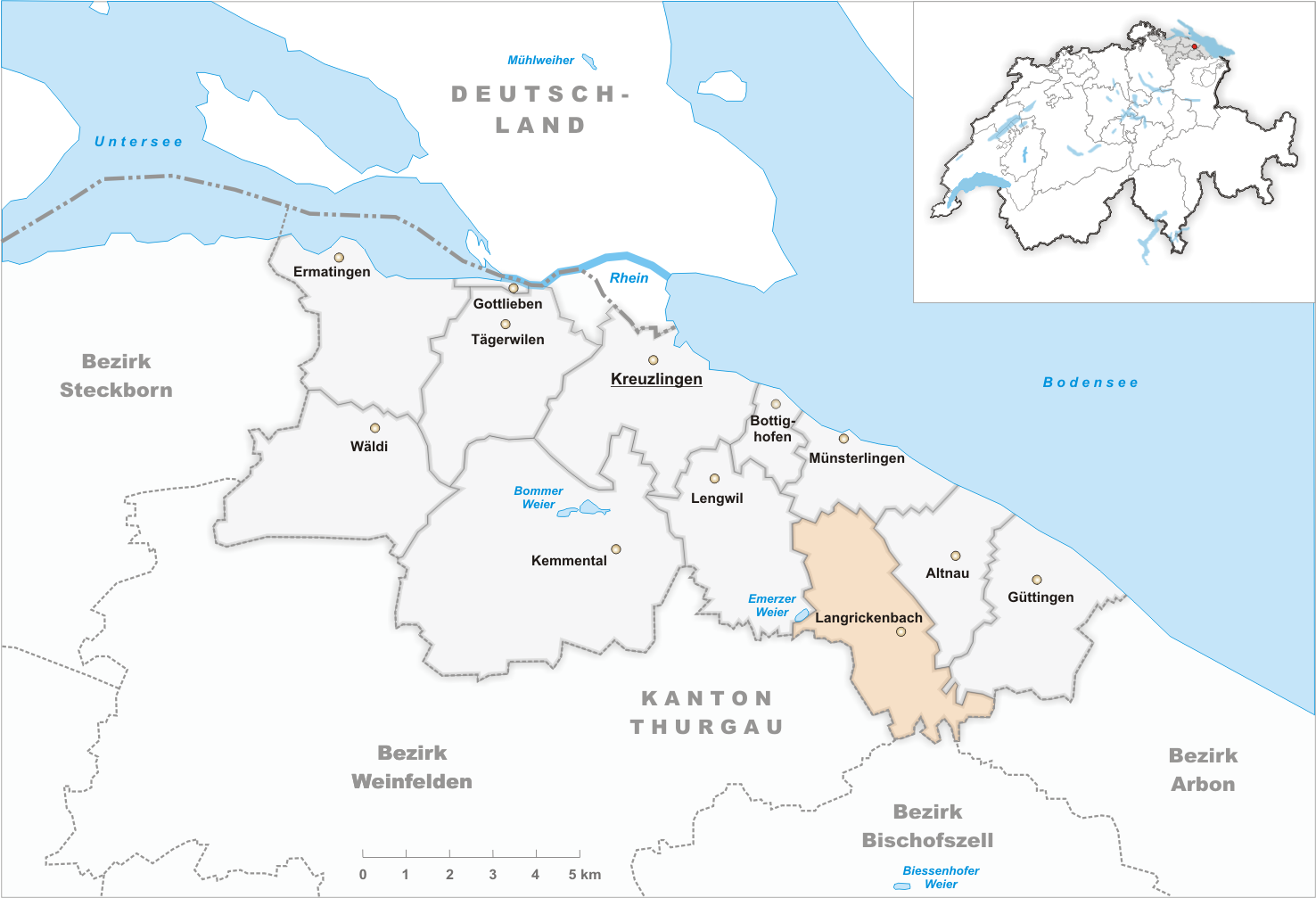 Municipality Langrickenbach